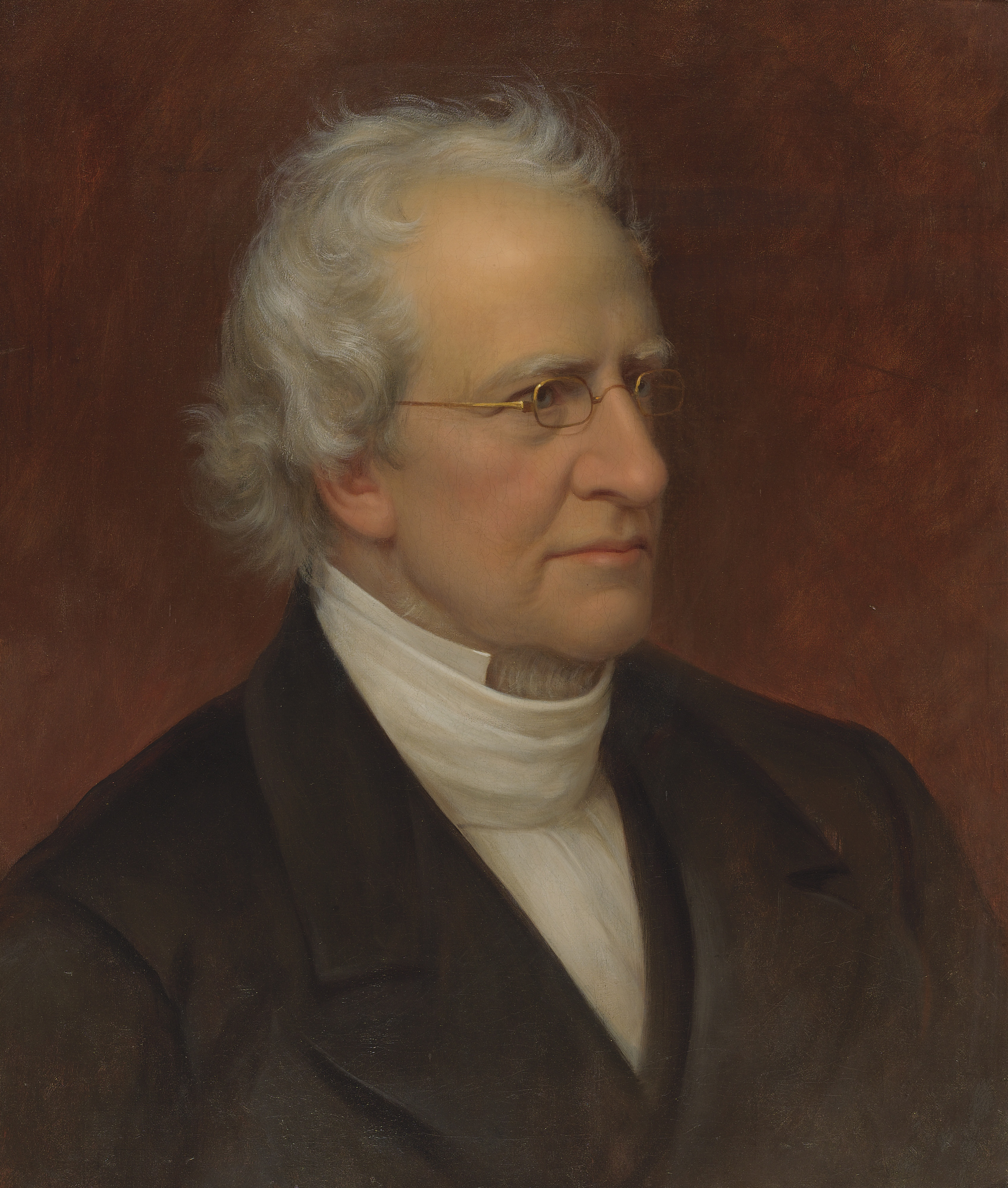 Portrait of the cleric Charles Hodge